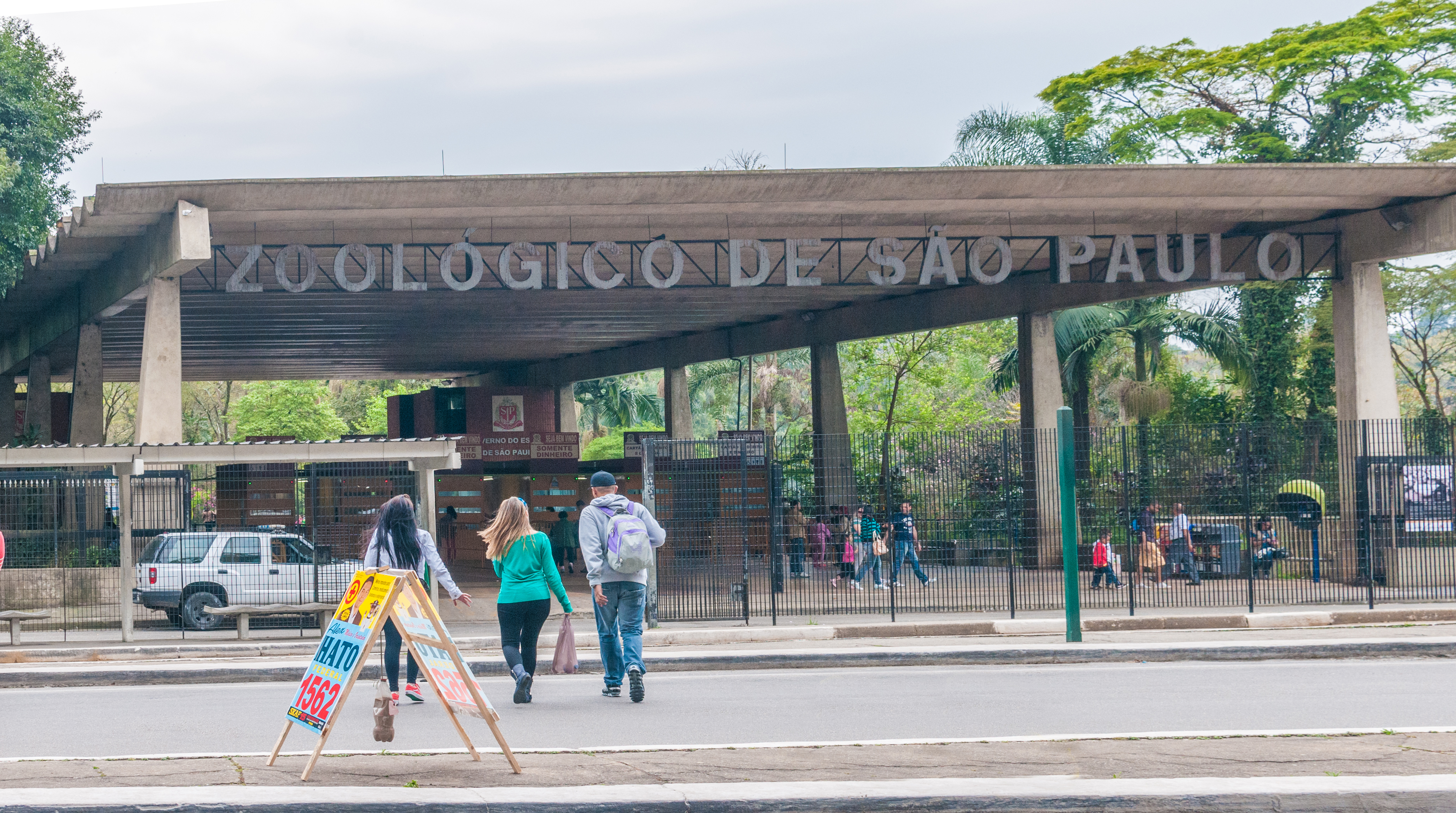 São Paulo Zoo